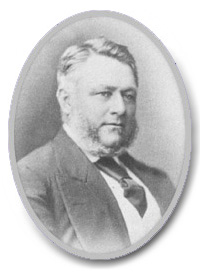 Portrait of Henry Ayers, former premier of South Australia.